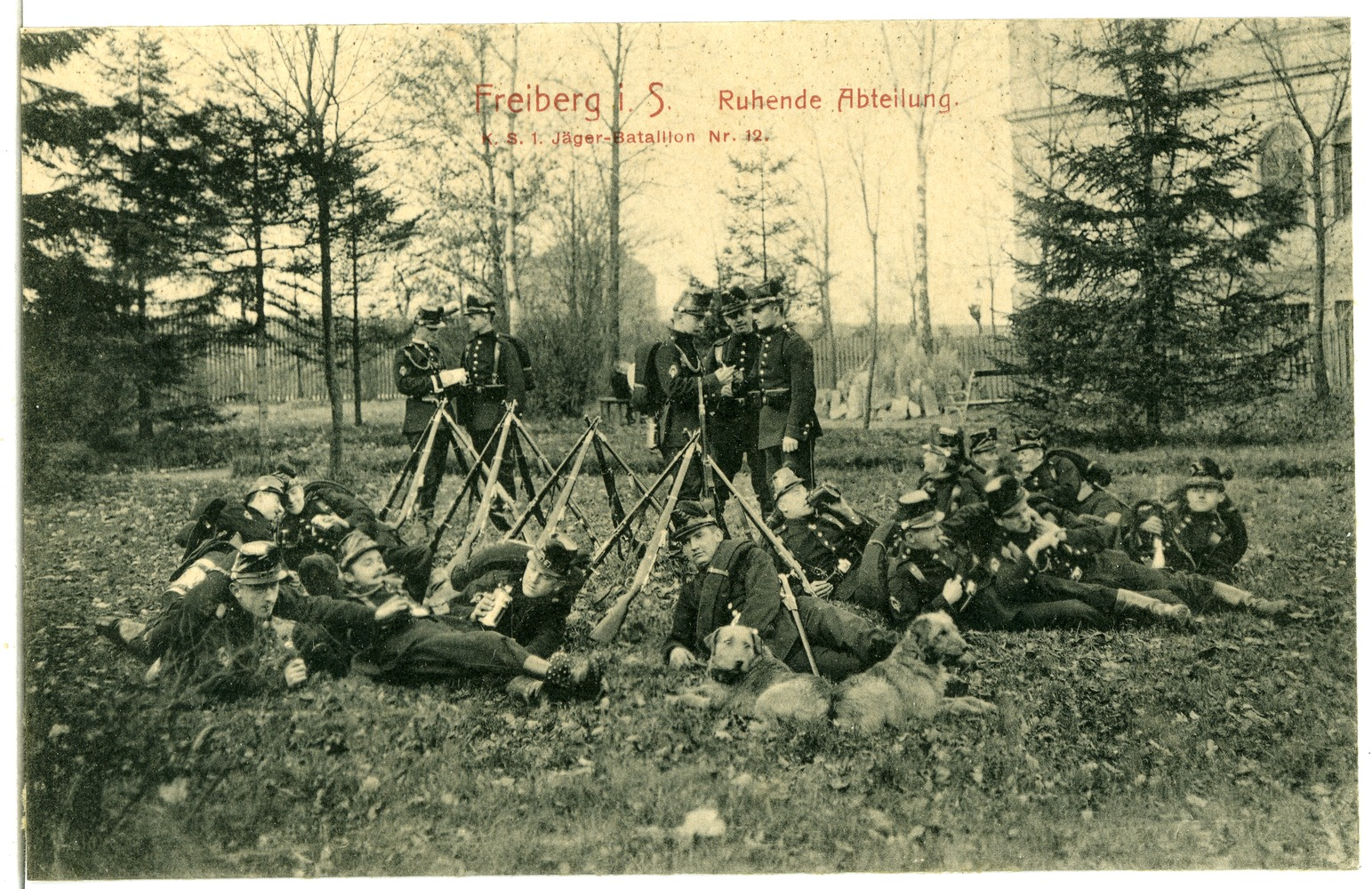 This postcard is from publisher Brück & Sohn in Meißen ( This postcard has a unique number 07094 and is available in a higher resolution at the publisher. This images was uploaded in a cooperation project between Wikipedians and the publisher.